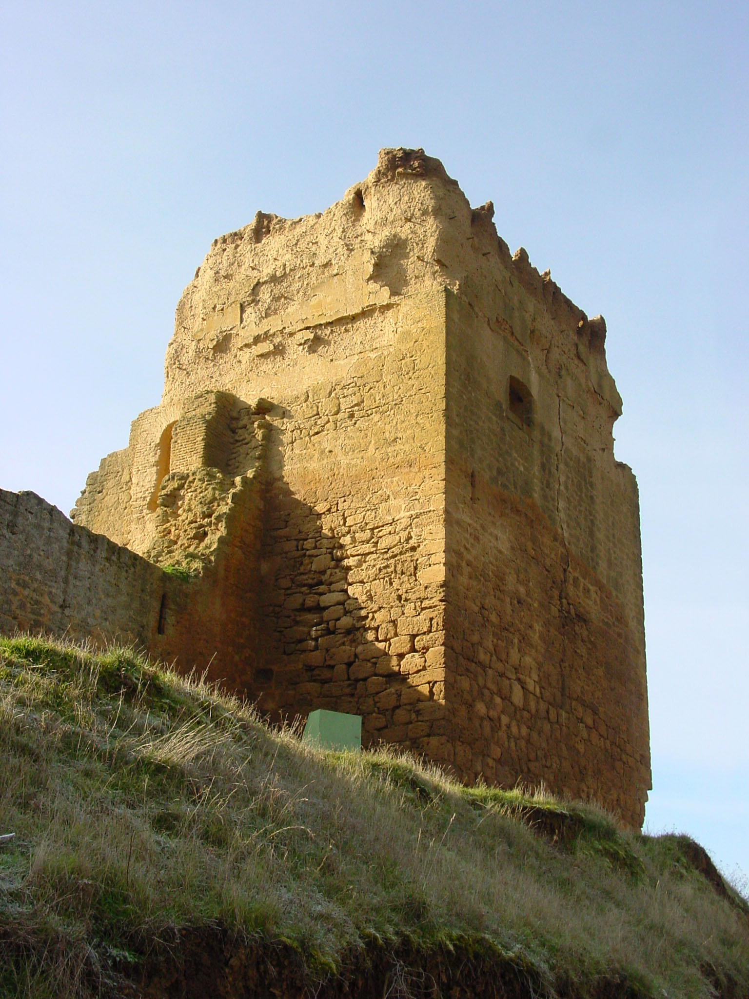 Valderas, León, Spain. Ruins of the fortress on the high area known as Altafría.